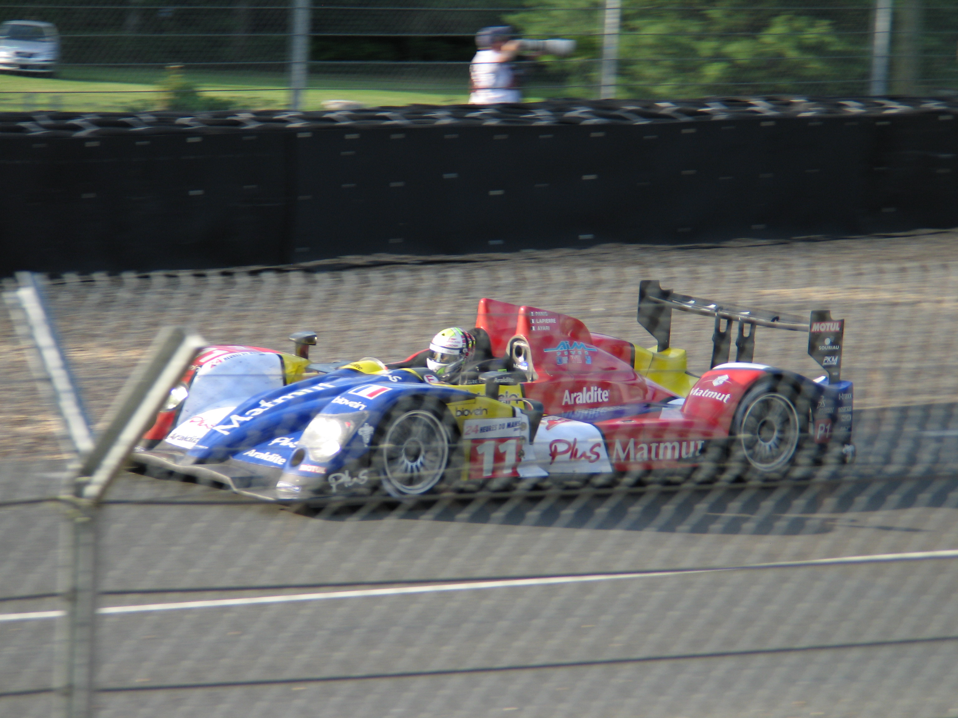 The #11 Team Oreca Matmut AIM's Oreca 01-AIM approaching Arnage Corner at the 2009 24 Hours of Le Mans.